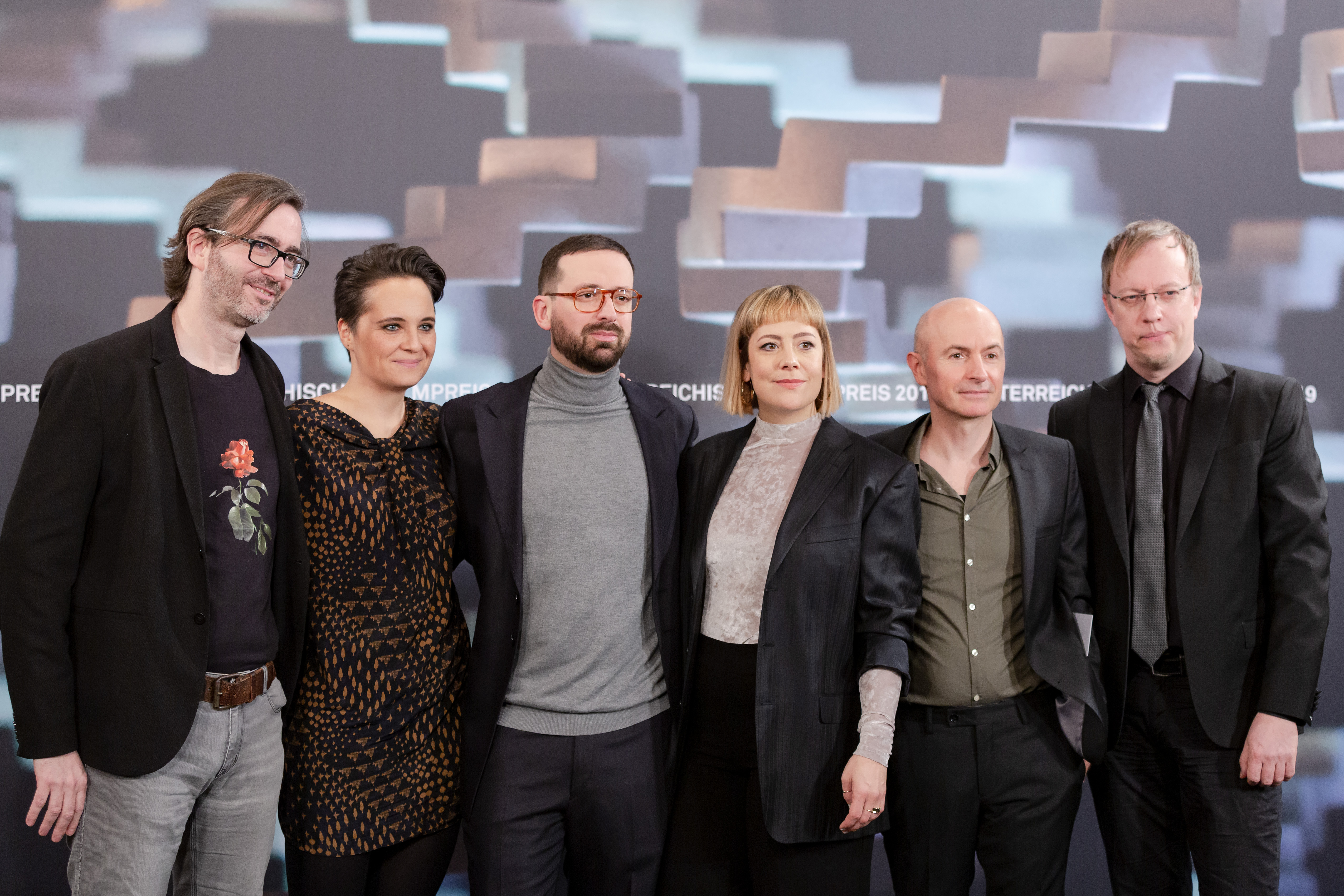 Part of the production team of "L’Animale", l.t.r. Markus Glaser, Natalie Schwager, Flavio Marchetti, Katharina Mückstein, Wolfgang Widerhofer and Michael Kitzberger, photo call at the Austrian Film Awards 2019 (Rathaus, Vienna,Austria).